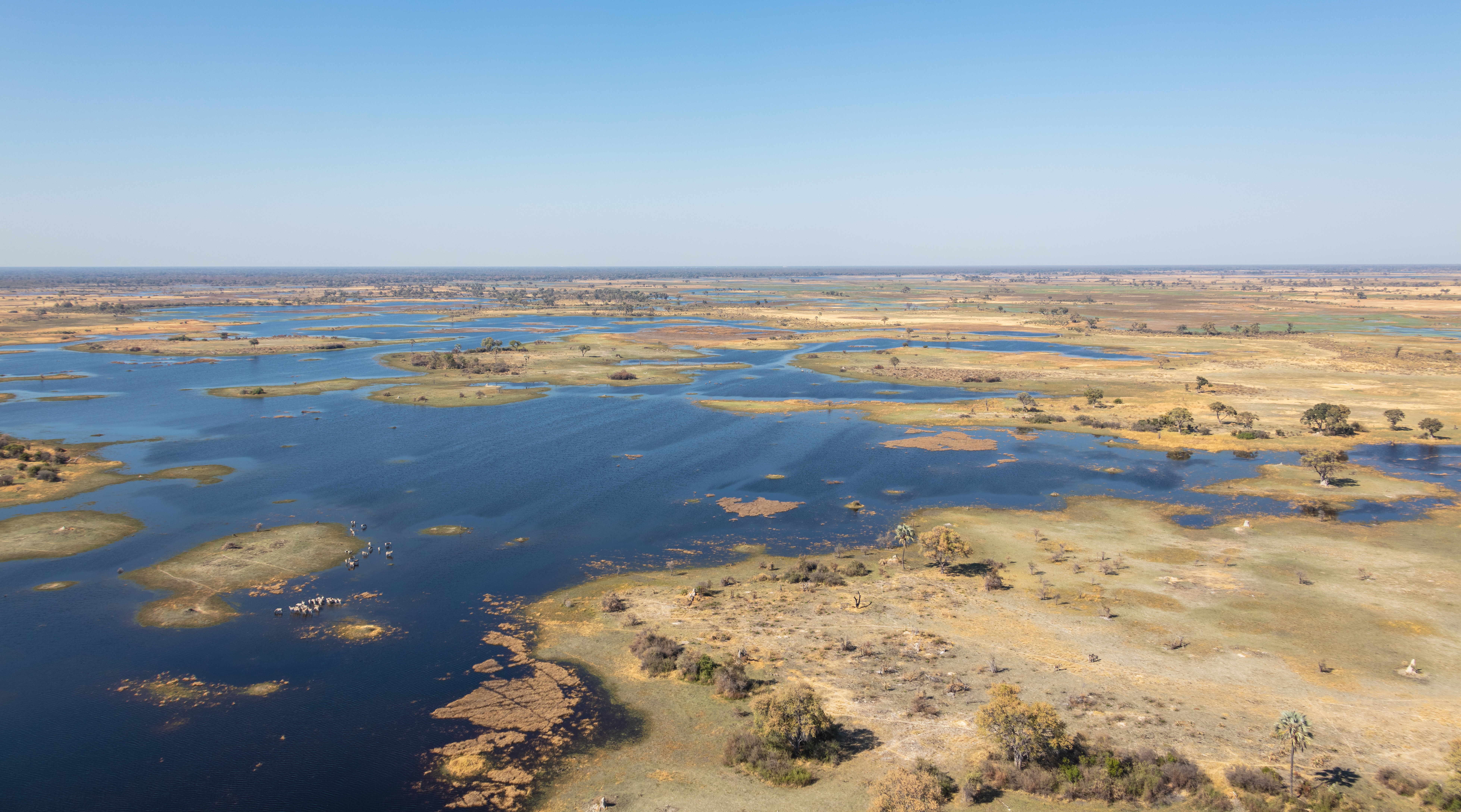 Aerial view of Okavango Delta, Botswana